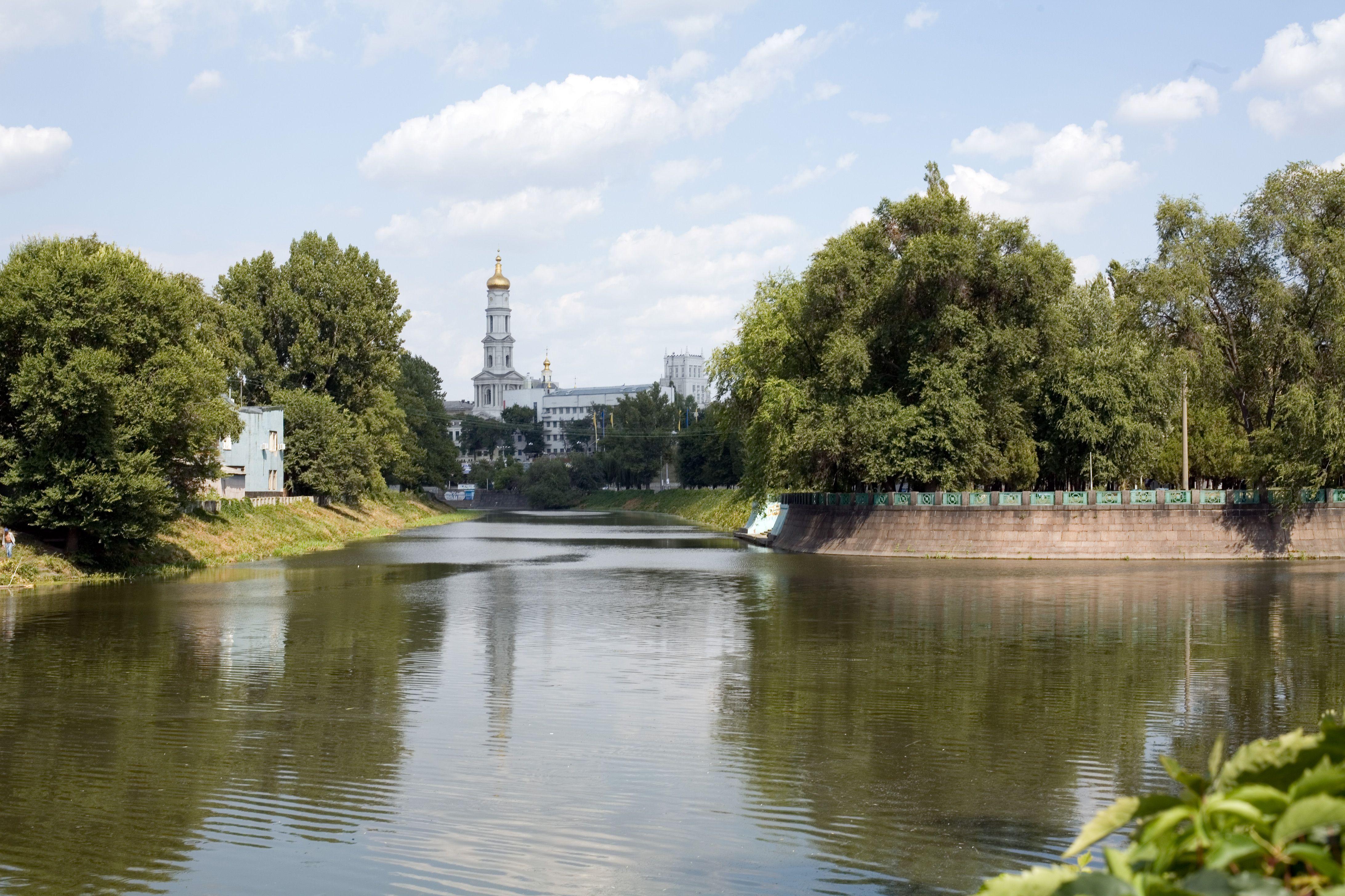 Kharkov City. Lopan (left) and Kharkov (right) rivers.